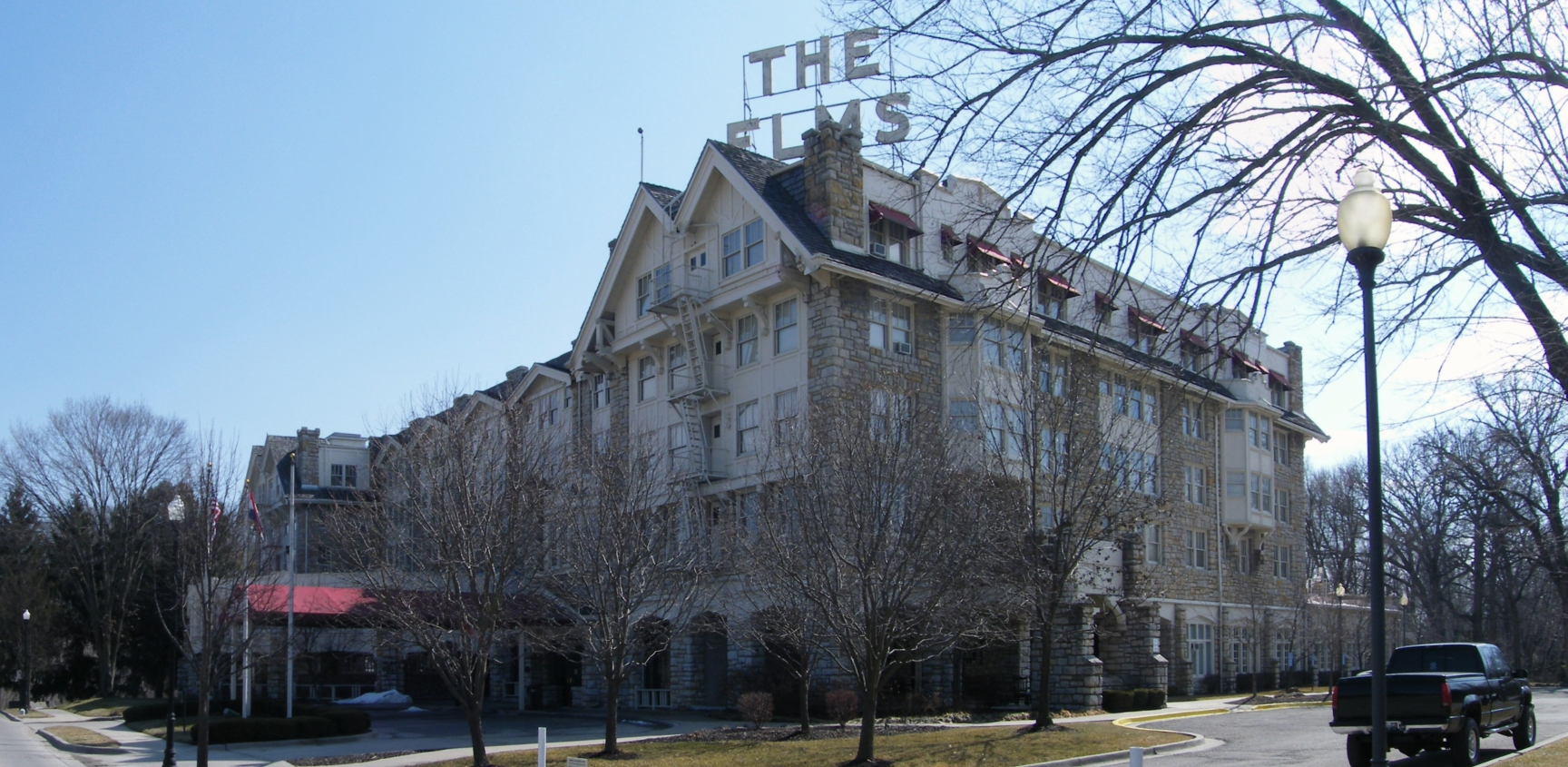 Elms Hotel in Excelsior Springs, Missouri